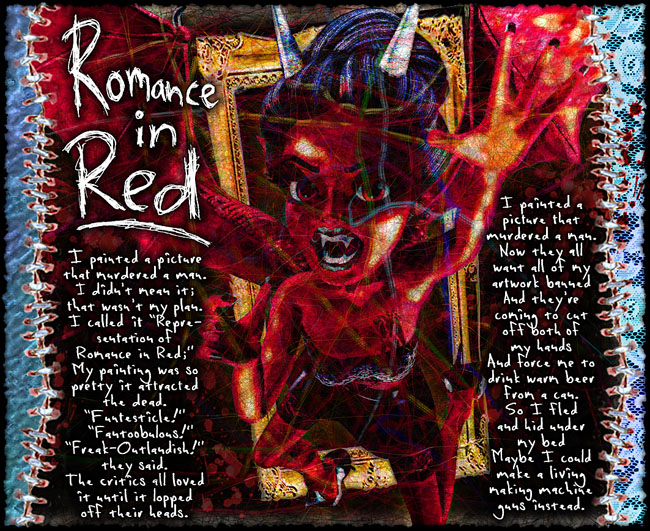 Sample of the comic Fetus-X.